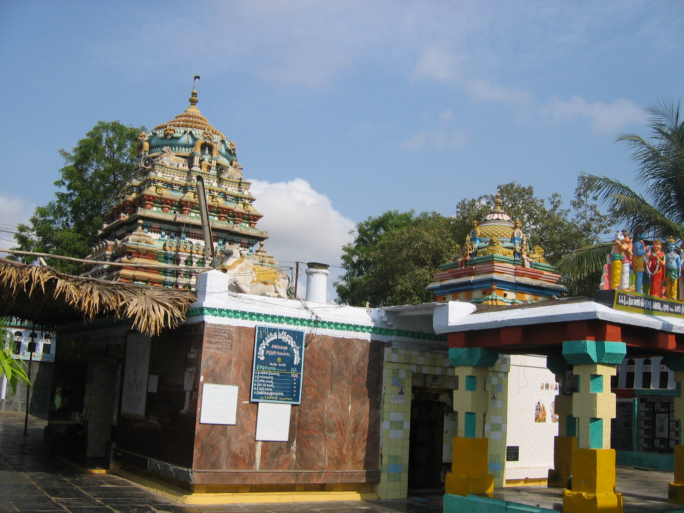 Image of the ancient Sivalayam in Old Guntur (Garthapuri). Source: Self made by Resident of Guntur.